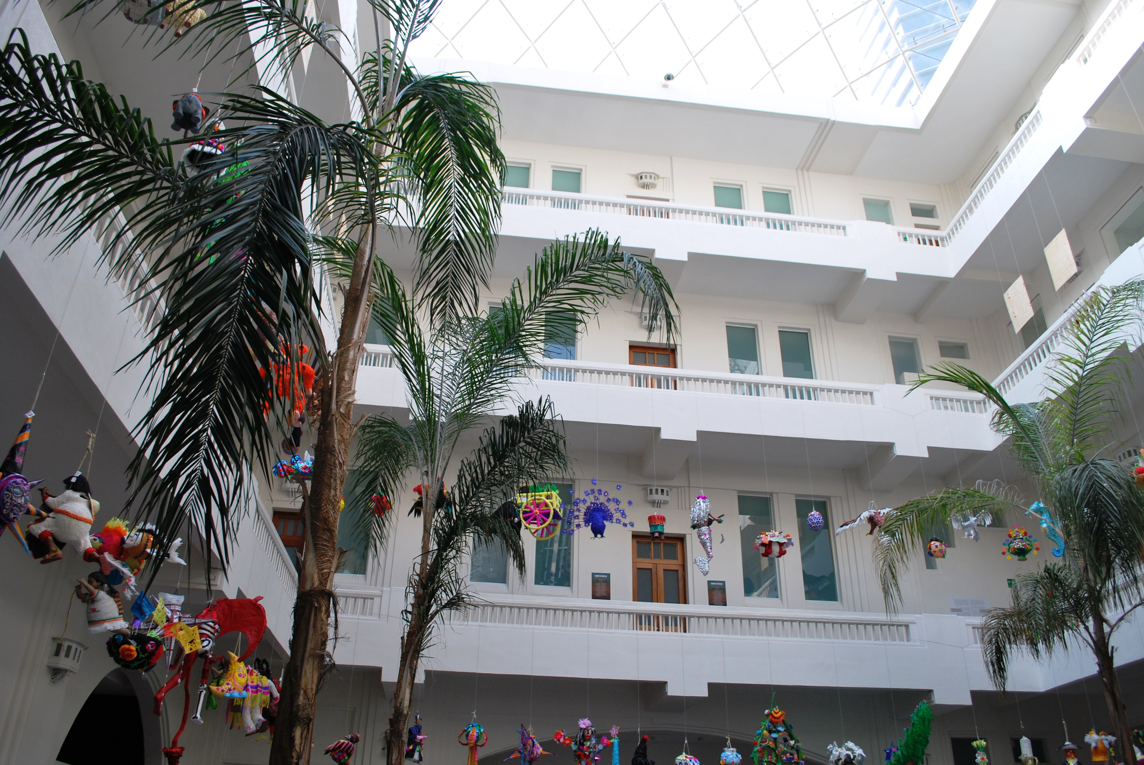 Looking up from the courtyard of the Museum of Artes Populares in Mexico City